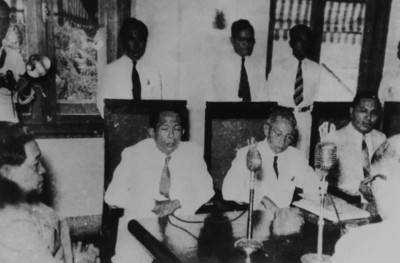 The takeover of the General Dutch East Indies Power Company or Algemeene Nederlandsch-Indische Electriciteits Maatschappij (ANIEM) in Surabaya on 2 November 1954 by Ir. R.M. Koesoemaningrat dan Ir. F.J. Inkiriwang (seated rightmost).